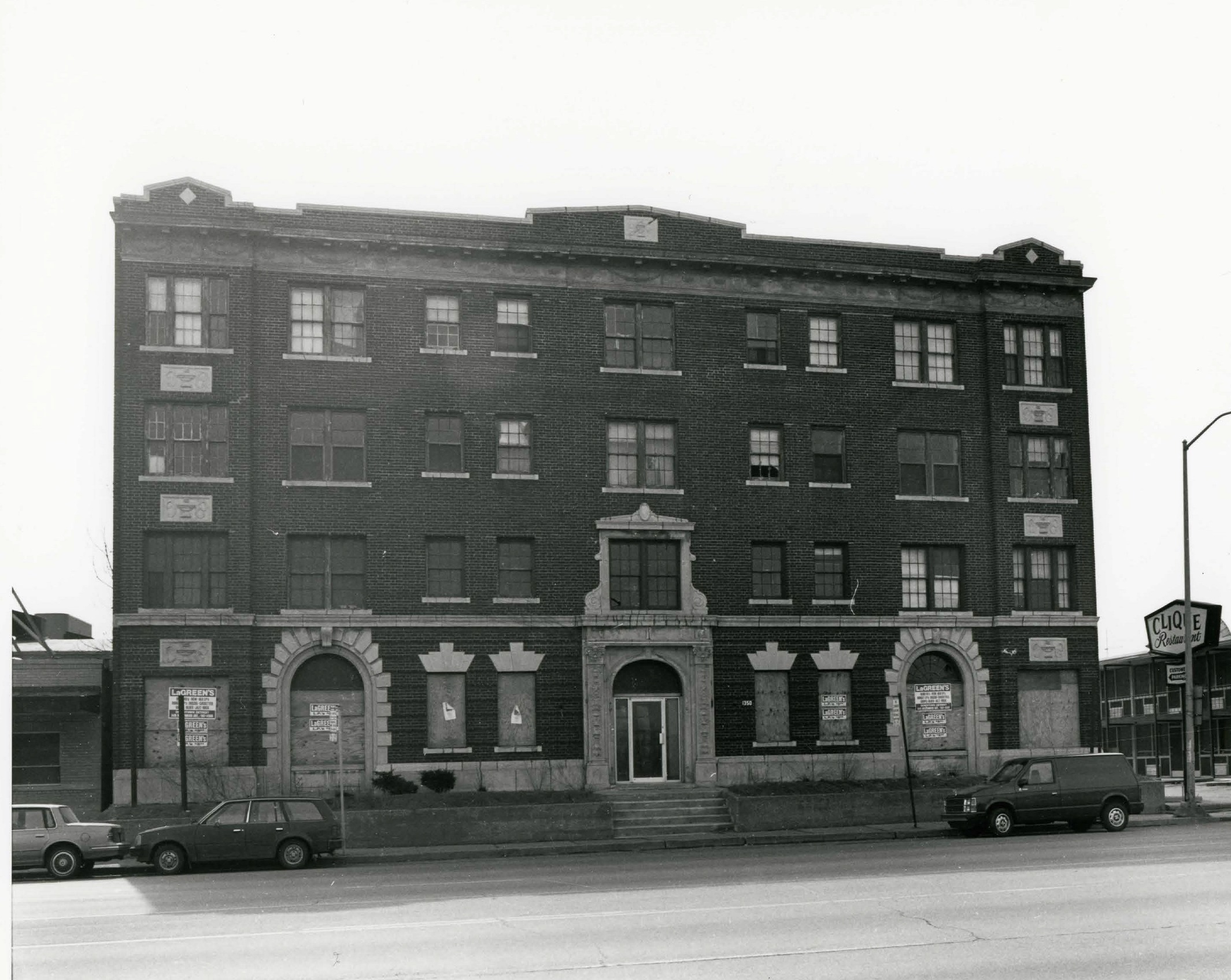 Pontchartrain Apartments, Detroit, 1985